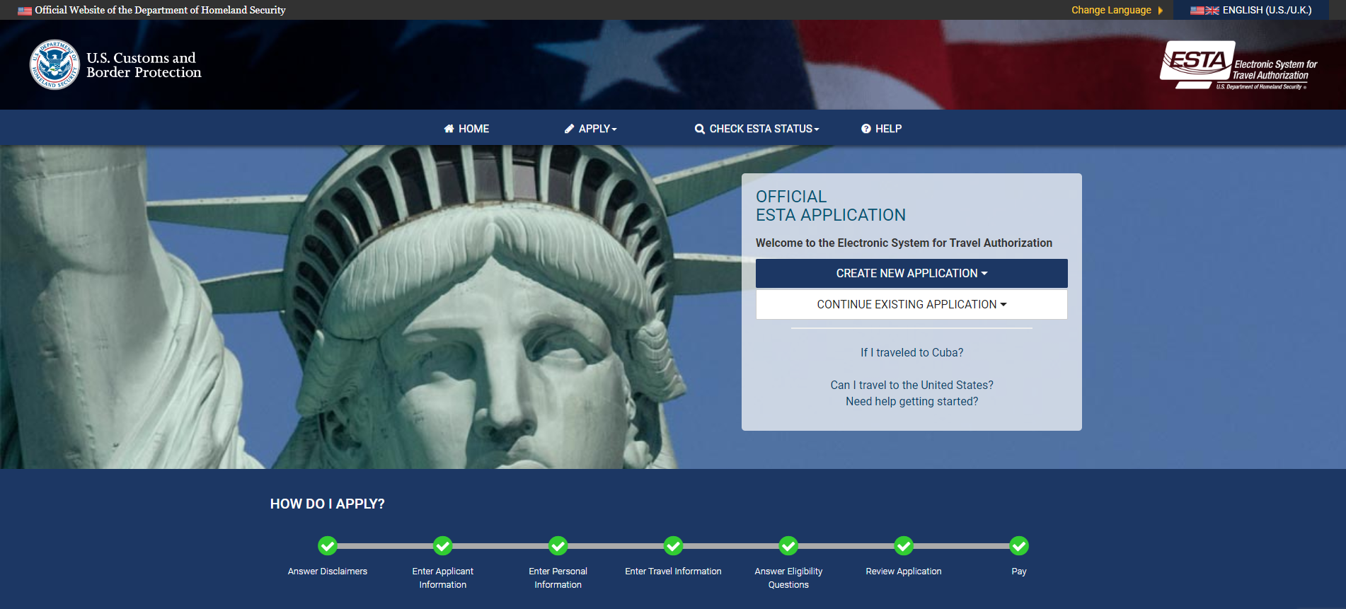 Screenshot of the Electronic System for Travel Authorization website